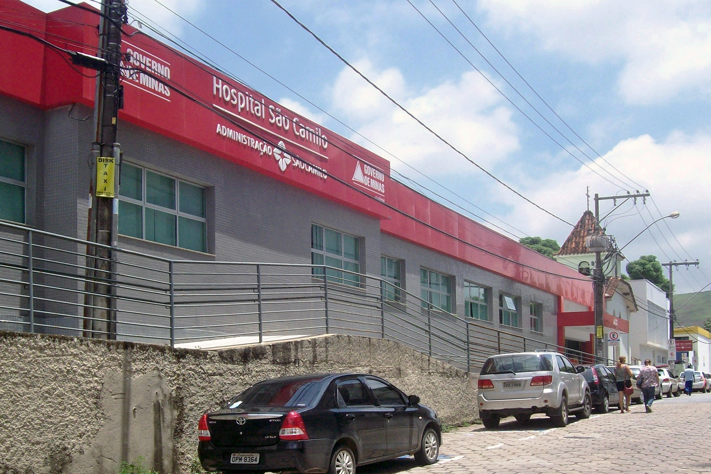 Partial view of the São Camilo Hospital, in Coronel Fabriciano, Minas Gerais, Brazil.